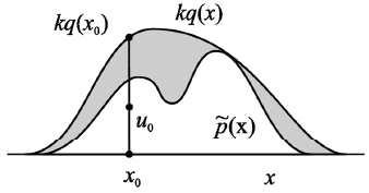 روش نمونه‌برداری بازپس زننده